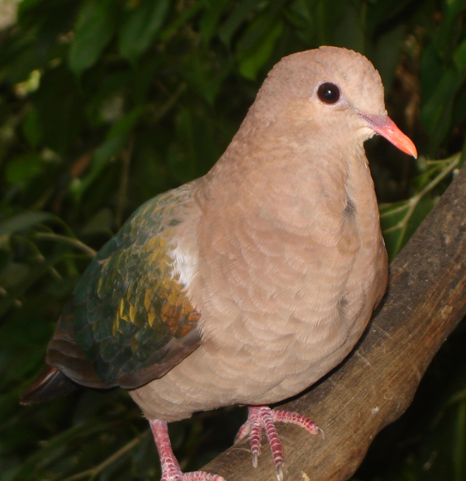 Emerald Dove, colombine turvert (Chalcophaps indica)